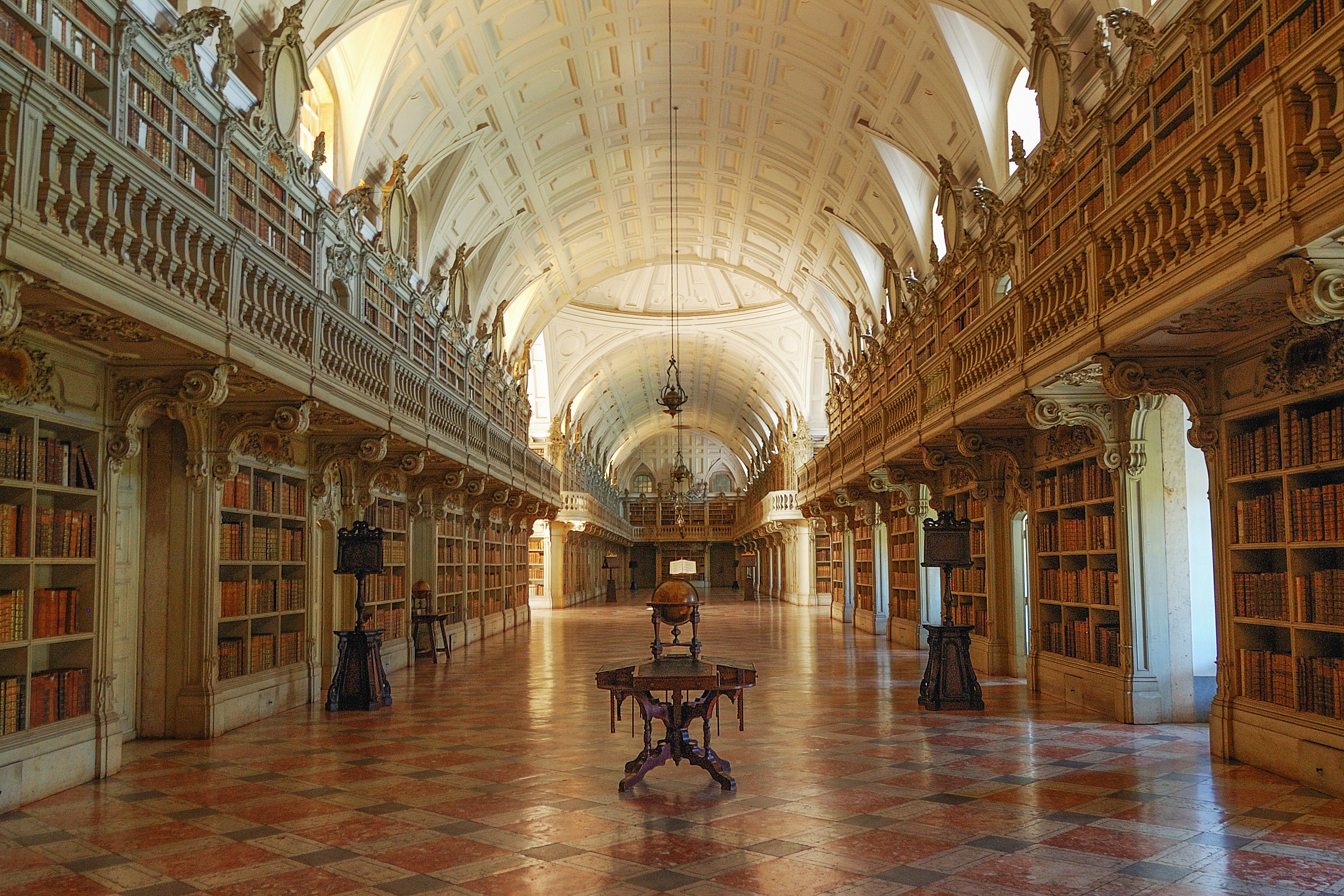 Library in the Mafra National Palace, Portugal